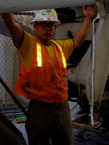 Construction worker in San Francisco.